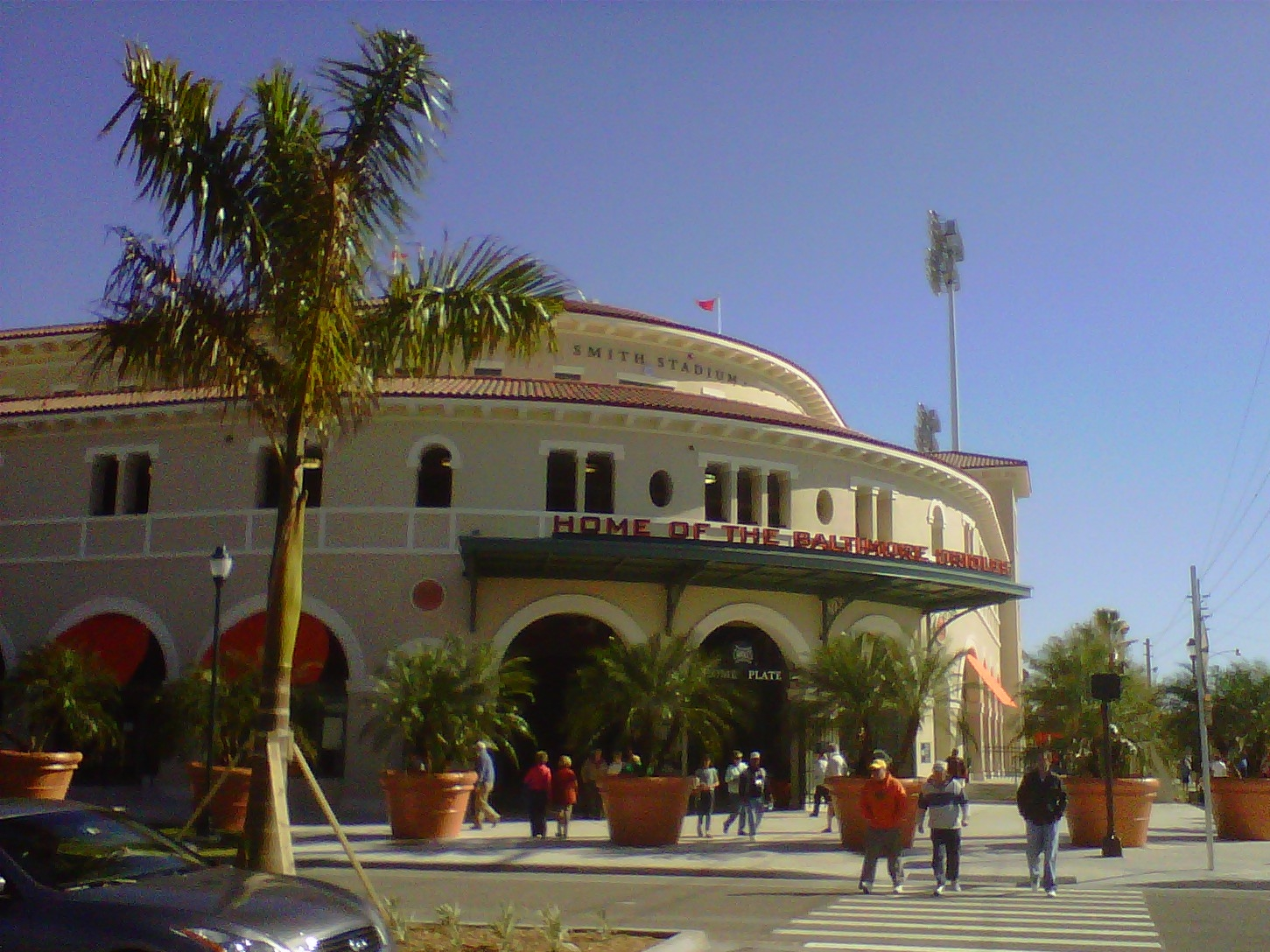 Ed Smith Stadium in Sarasota, Florida, during 2011 Baltimore Orioles Spring Training. The Grapefruit League baseball field is shown in its first season after a $31 million renovation. The ballpark was built in 1989.